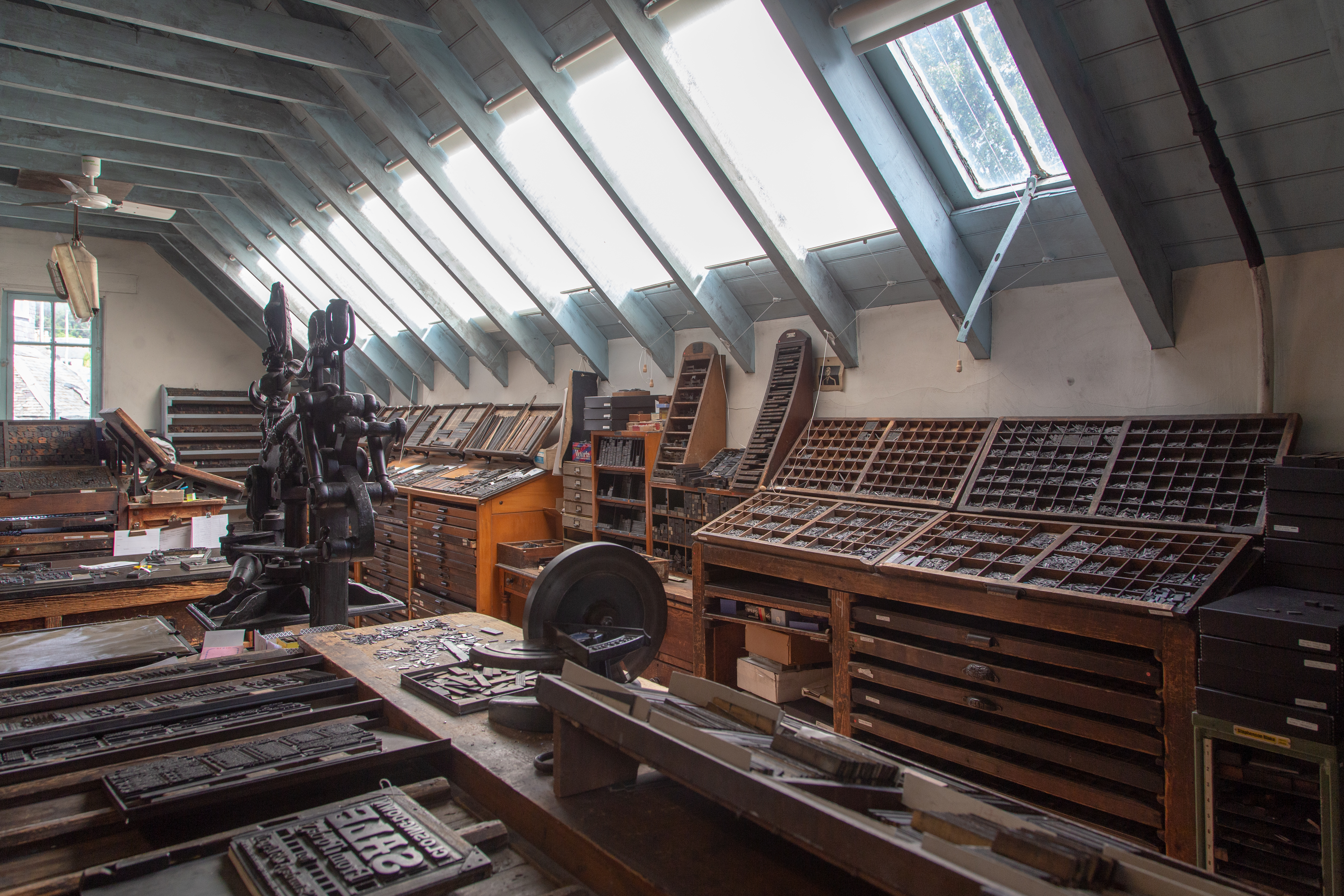 Type cases in the case-room of Robert Smail's Printing Works, 2019